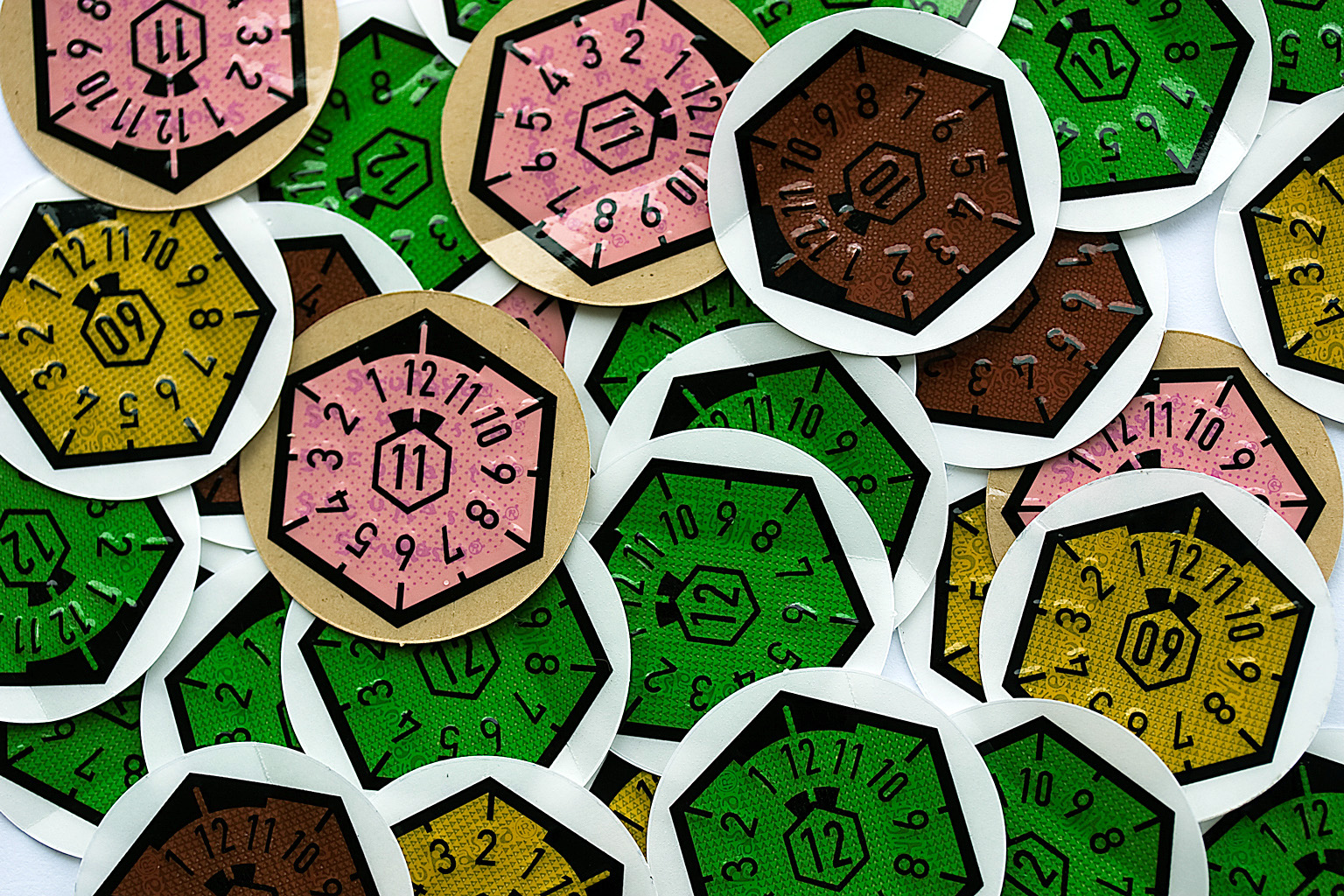 Picture of emission test sticker on German licence plates.